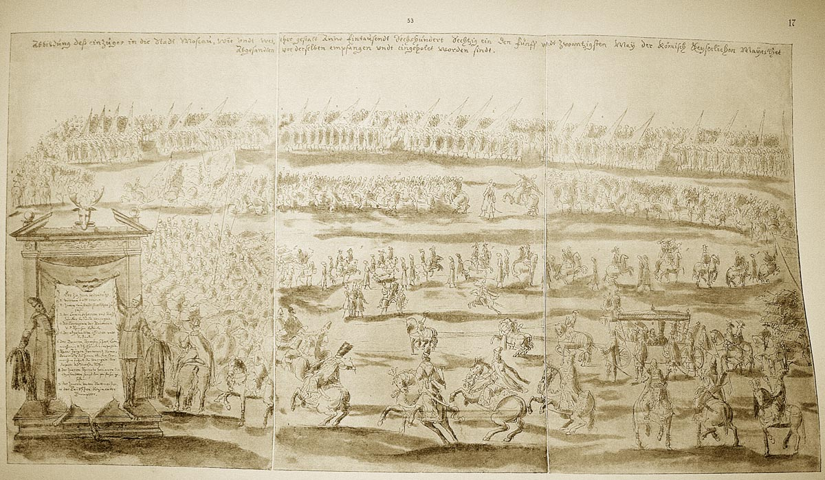 The entrance of the embassy of Emperor Leopold I to Moscow in 1661.